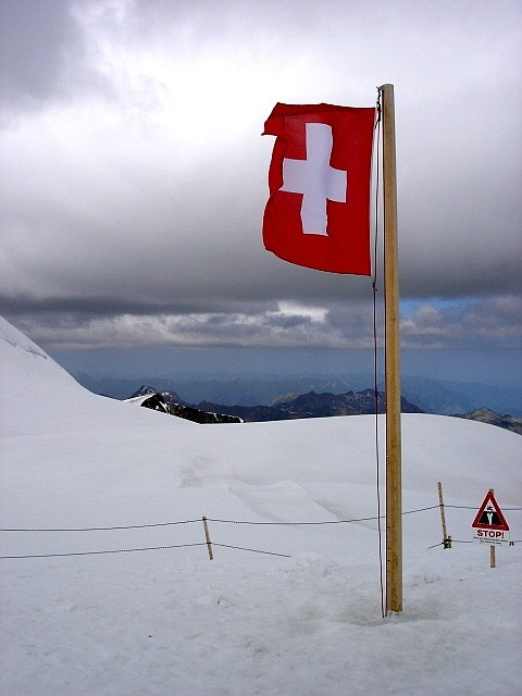 Jungfraujoch